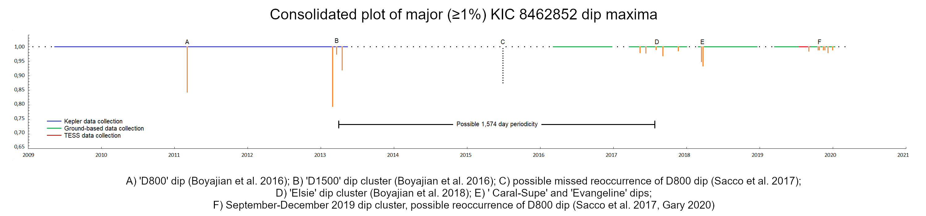 Consolidated plot of KIC 8462852 dip maxima